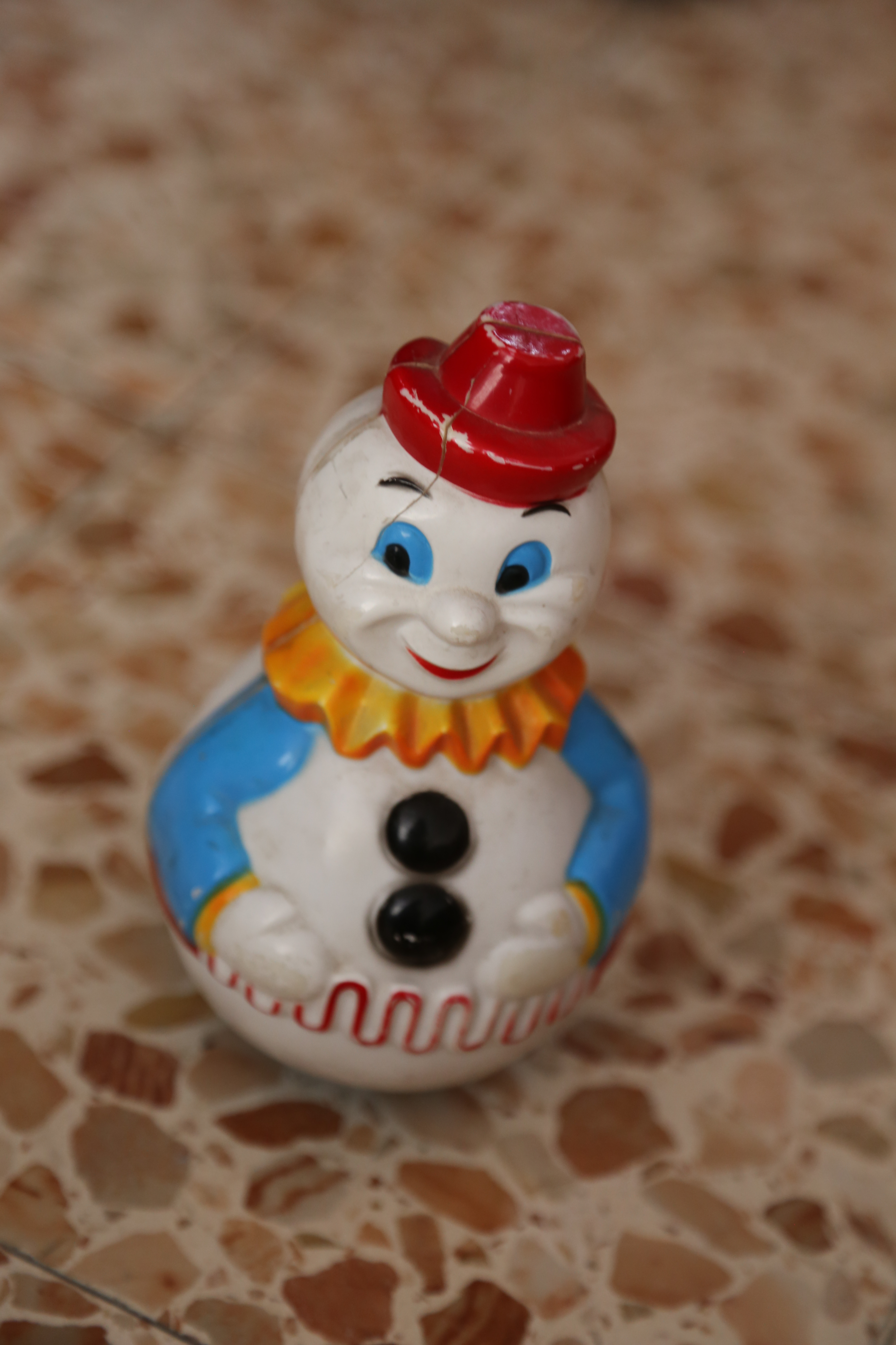 A roly-poly toy, round-bottomed doll, tilting doll, tumbler or wobbly man is a toy that rights itself when pushed over. The bottom of a roly-poly toy is round, roughly a hemisphere.